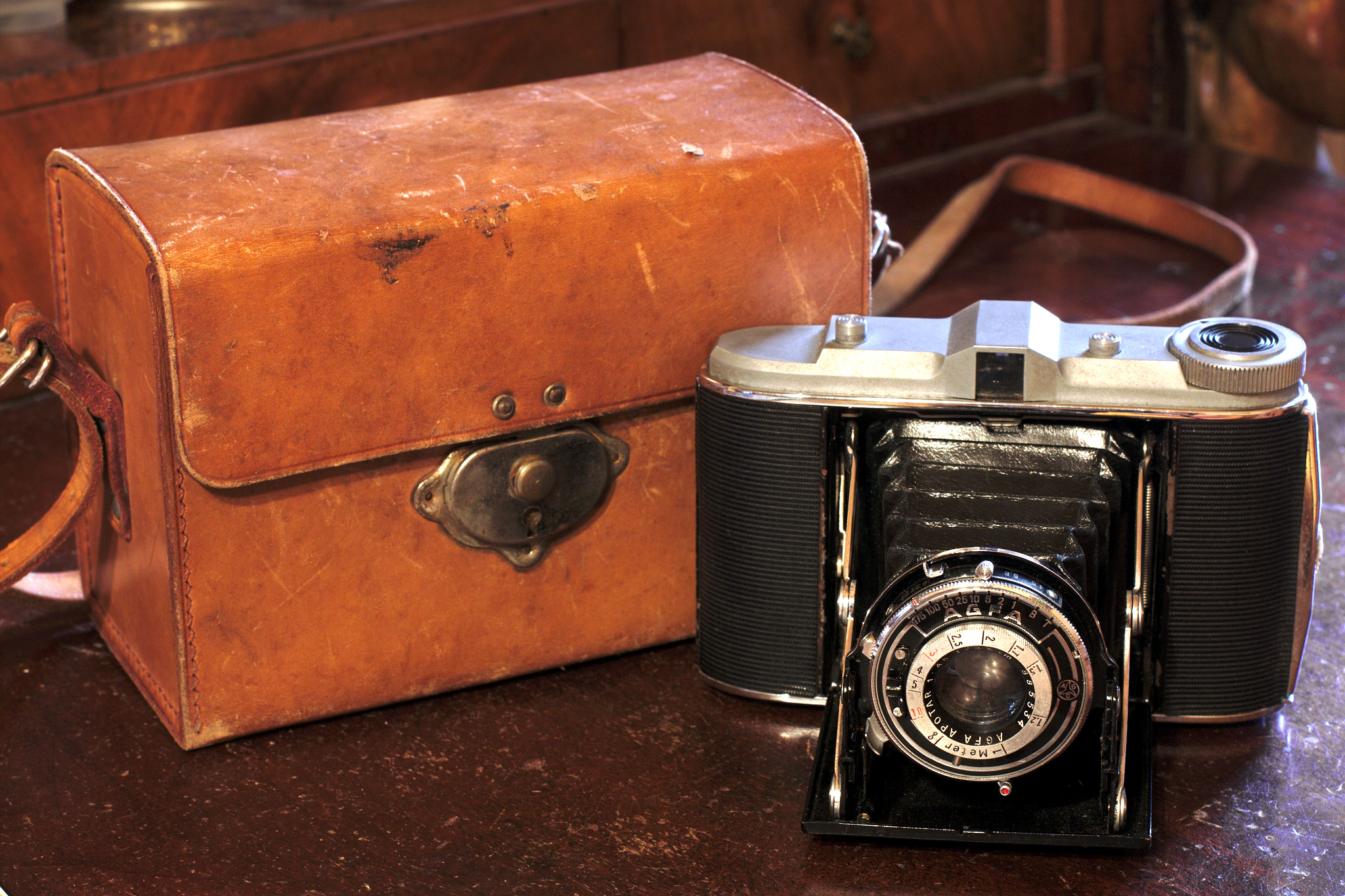 An Agfa Isolette camera with bag.